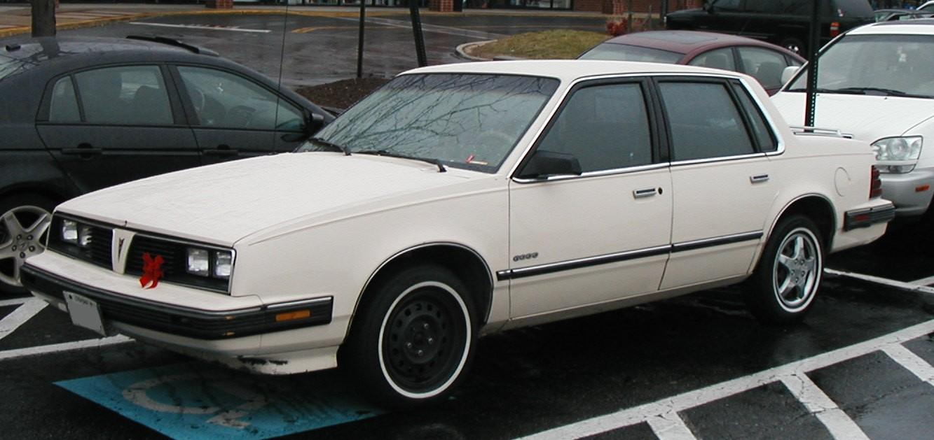 1982-1988 Pontiac 6000 photographed in USA.